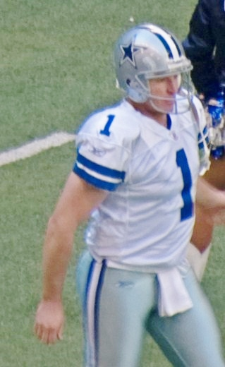 Mat McBriar, punter for the Dallas Cowboys, warms up before a game against the Philadelphia Eagles in 2007.